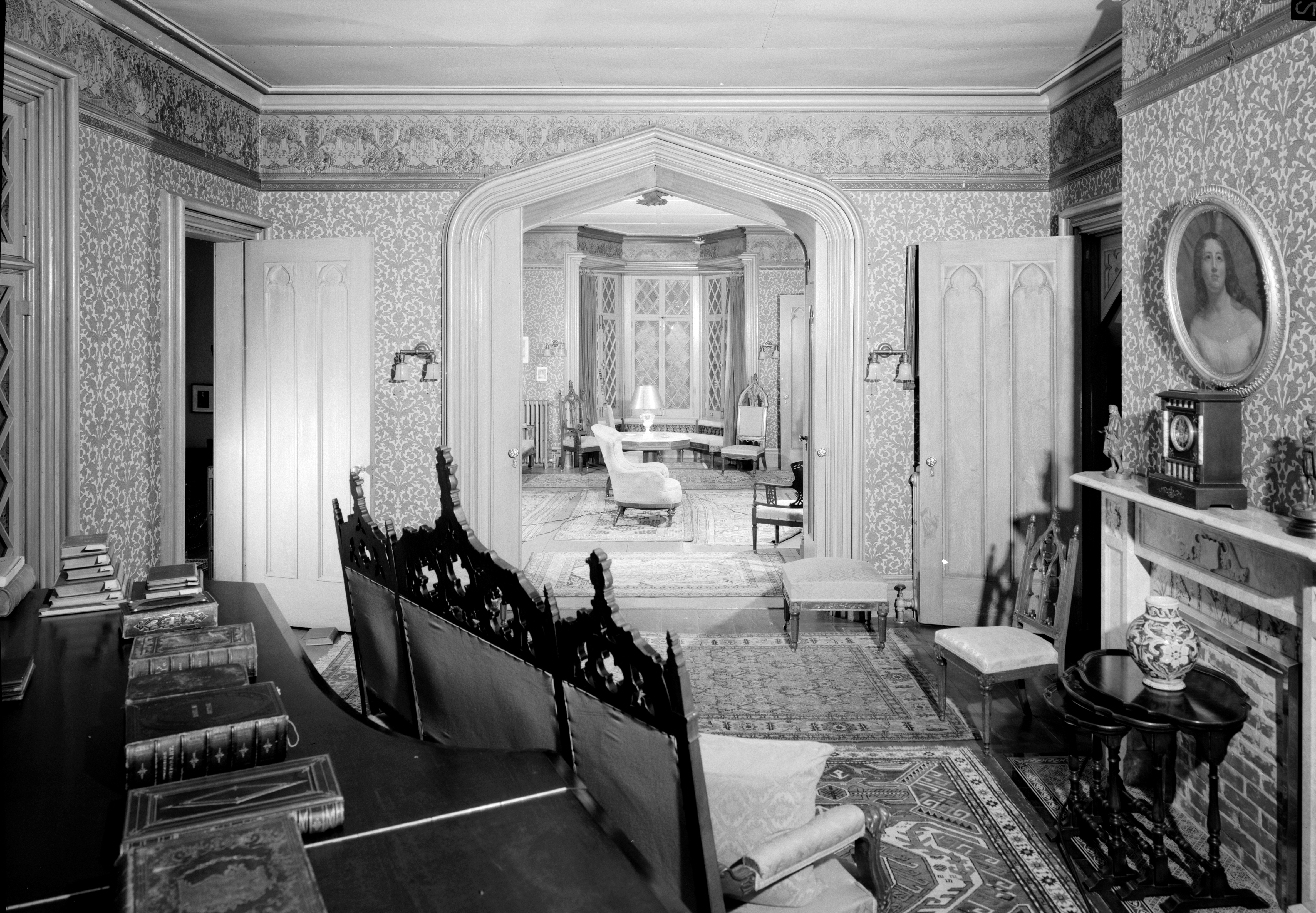 Roseland Cottage (Bowen Cottage), Woodstock, Connecticut, USA. Interior view from back parlor towards front parlor.